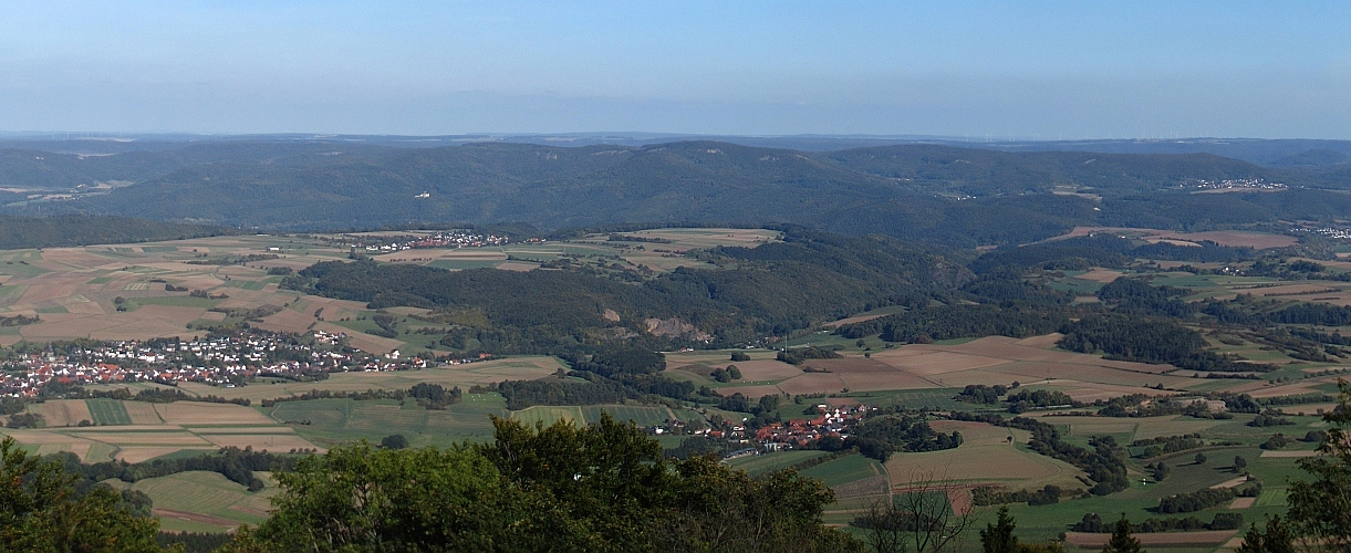 View from Kalbe (Hoher Meißner) to NE.